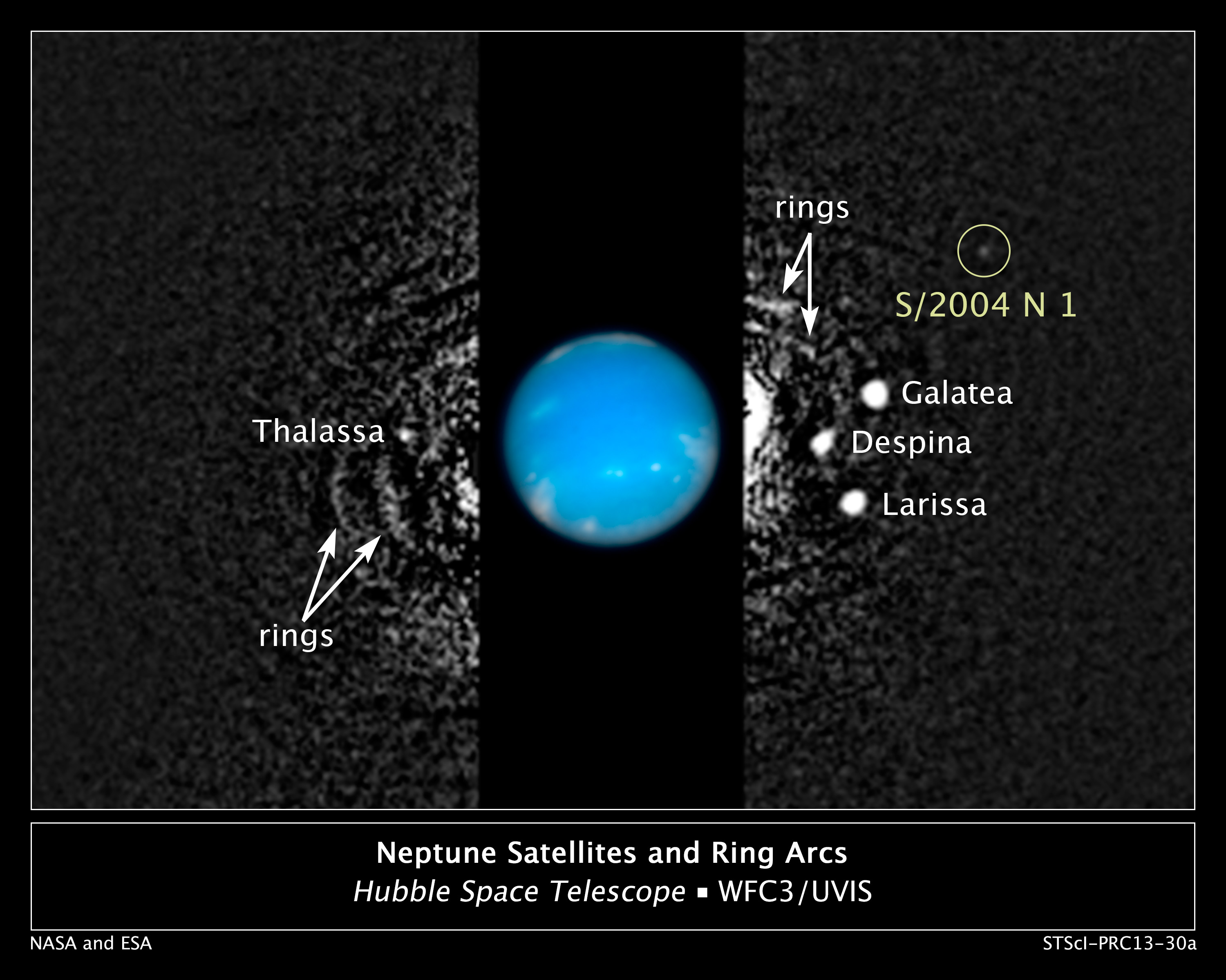 This composite Hubble Space Telescope picture shows the location of a newly discovered moon, designated S/2004 N 1, orbiting the giant planet Neptune. The moon is so small (no more than 12 miles across) and dim, it was missed by NASA's Voyager 2 spacecraft cameras when the probe flew by Neptune in 1989. Several other moons that were discovered by Voyager appear in this 2009 image, along with a circumplanetary structure known as ring arcs. Mark Showalter of the SETI Institute discovered S/2004 N 1 in July 2013. He analyzed over 150 archival Neptune photographs taken by Hubble from 2004 to 2009. The same white dot appeared over and over again. He then plotted a circular orbit for the moon, which completes one revolution around Neptune every 23 hours. The black-and-white image was taken in 2009 with Hubble's Wide Field Camera 3 in visible light. Hubble took the color inset of Neptune on August 19, 2009.